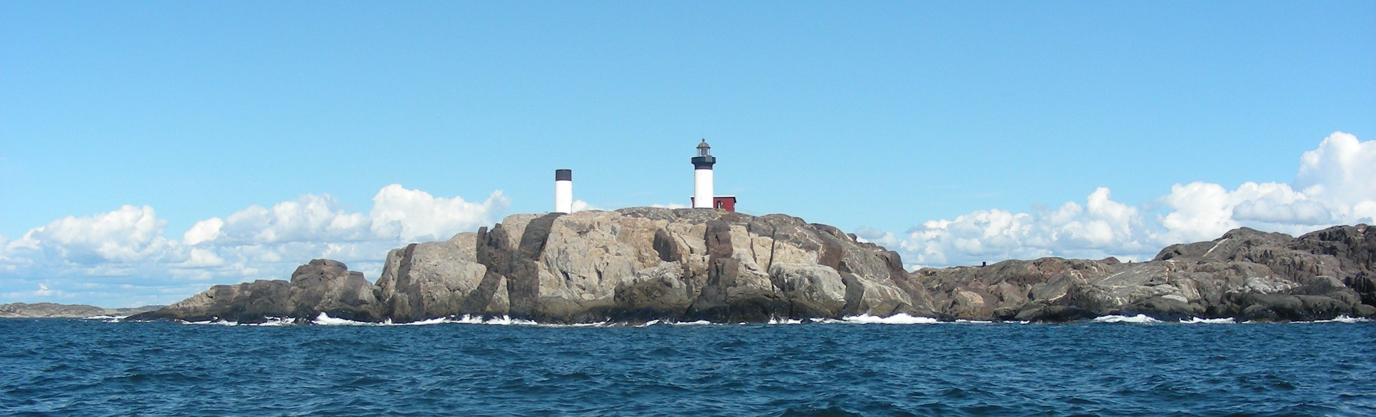 The Yttre Ursholmen, viewed from south.